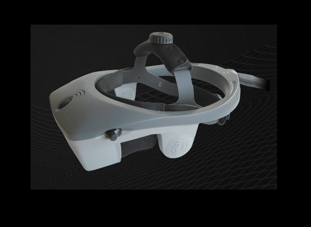 nVISOR SX60 Head-mounted display (HMD) from NVIS